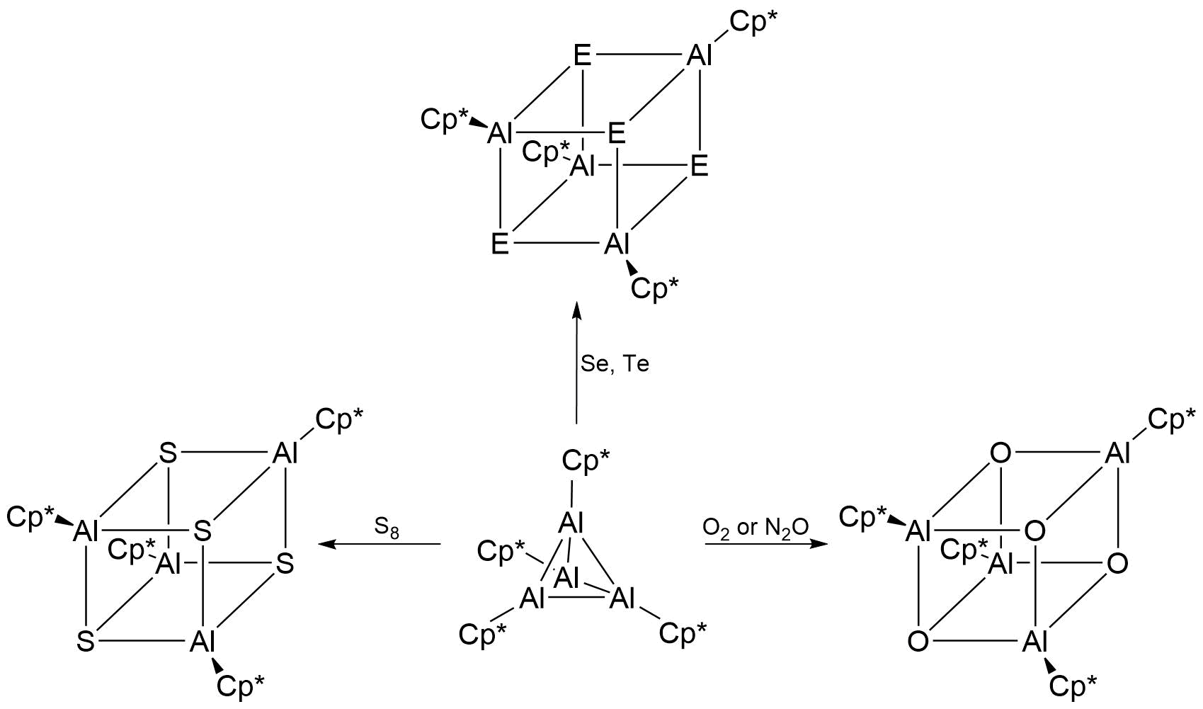 Different reactivity pathways of (Pentamethylcyclopentadienyl)aluminium(I)